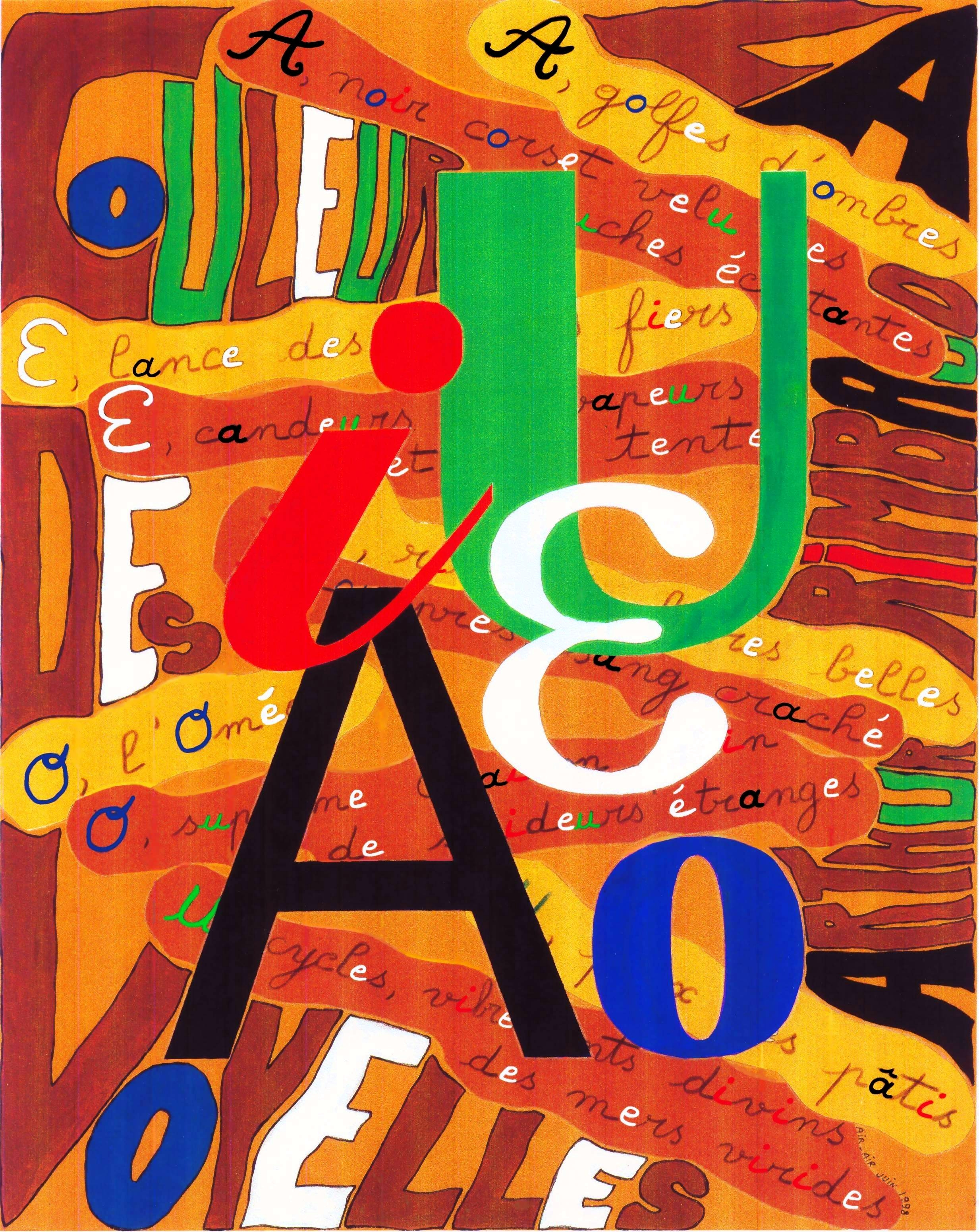 (Illustration of Arthur Rimbaud'poem Vowels) Category:Collage